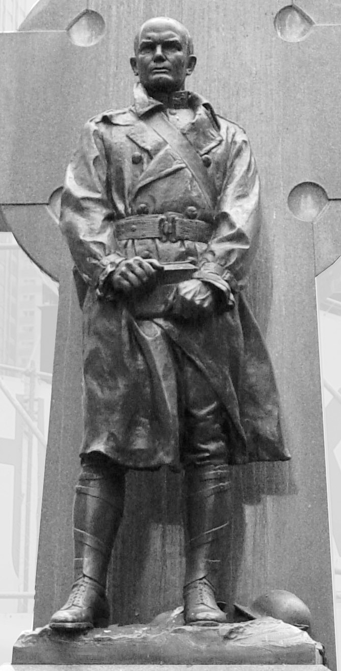 Image of monument to Francis P. Duffy, located in a small wedge of park at Times Square, New York City, where theatergoers gather to purchase discount theater tickets. Text on the obverse of this monument: LIUEUTENANT COLONEL FRANCIS P. DUFFY MAY 2 1871 - JUNE 26 1932 CATHOLIC PRIEST CHAPLAIN165TH U S INFANTRYOLD 69TH N Y A LIFE OF SERVICE FOR GOD AND COUNTRY SPANISH AMERICAN WAR NEW YORK NATIONAL GUARD MEXICAN BORDER WORLD WAR DISTINGUISHED SERVICE CROSS DISTINGUISHED SERVICE MEDAL CONSPICUOUS SERVICE CROSS LEGION D'HONNEUR CROIX DE GUERRE Reduced original image Image and image processing by User:Leonard G. Image skewed to correct camera viewpoint distortion. Distractive background decolorized by selecting only red channel and slightly blurred and statue slightly sharpened. Note that the cross and sculpture are shown in color, only the background has been forced to monochrome.